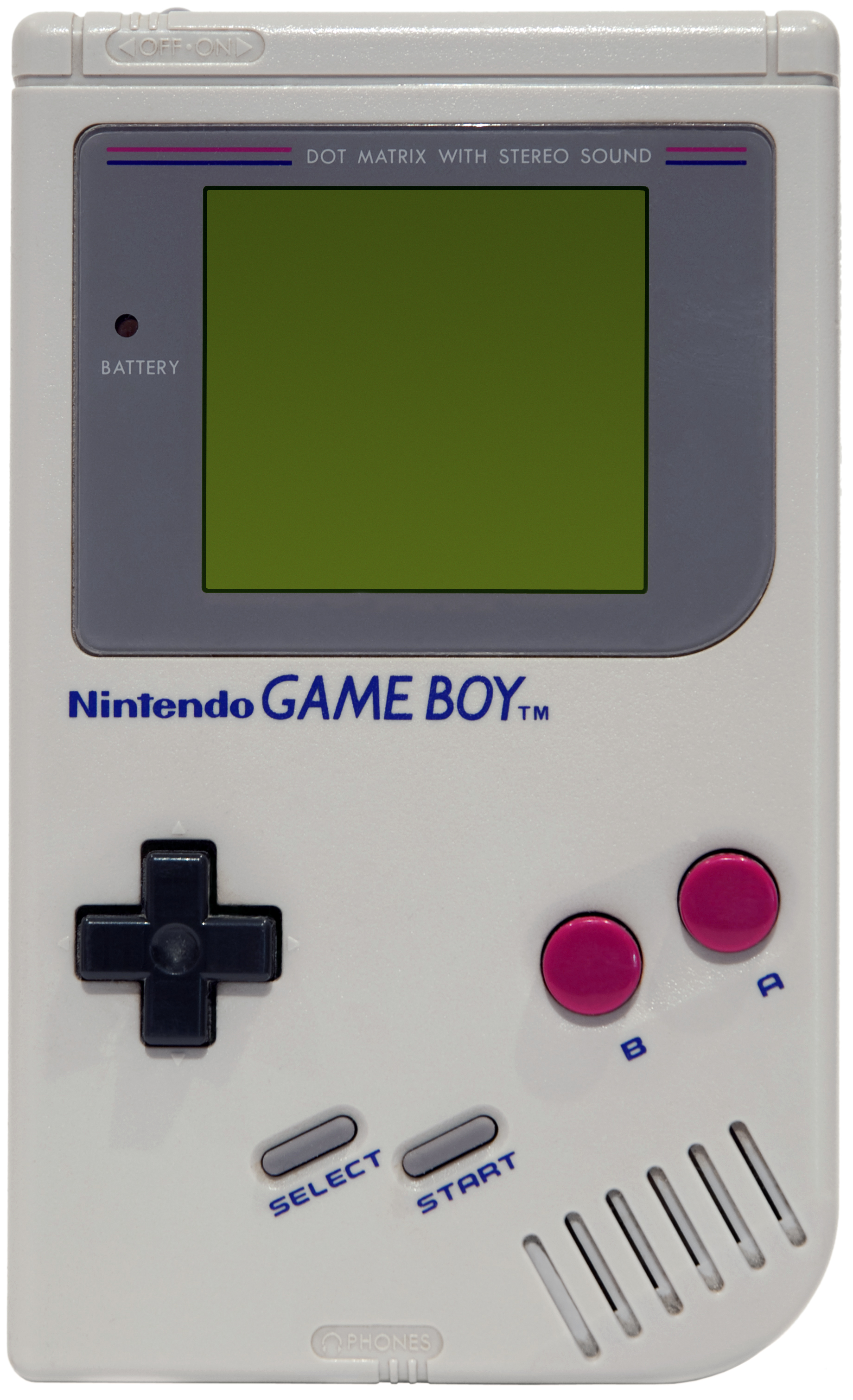 The original Game Boy, manufactured by Nintendo and released in Japan on 1989-04-21.